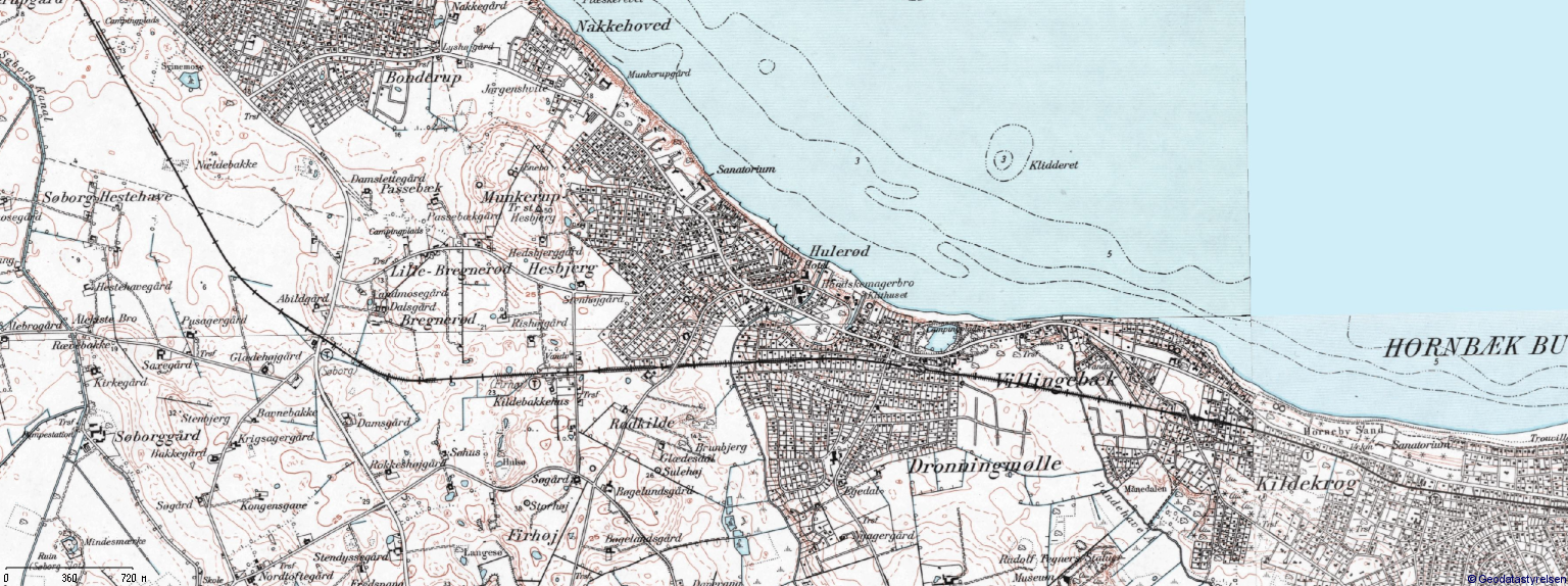 Dronningmølle 1969